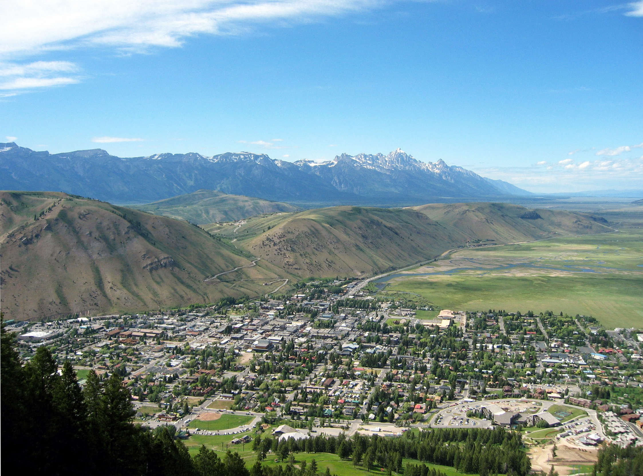 NORIGHTSRESERVED; PD-AUTHOR; Released into the public domain (by the author).